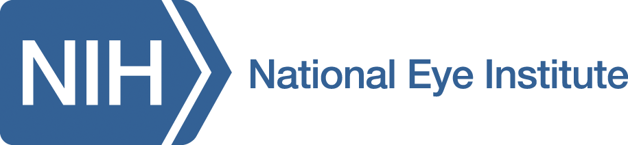 The combined National Institutes of Health and National Eye Institute logo, 2013